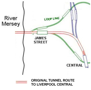 Diagram of Liverpool James Street station platform layout